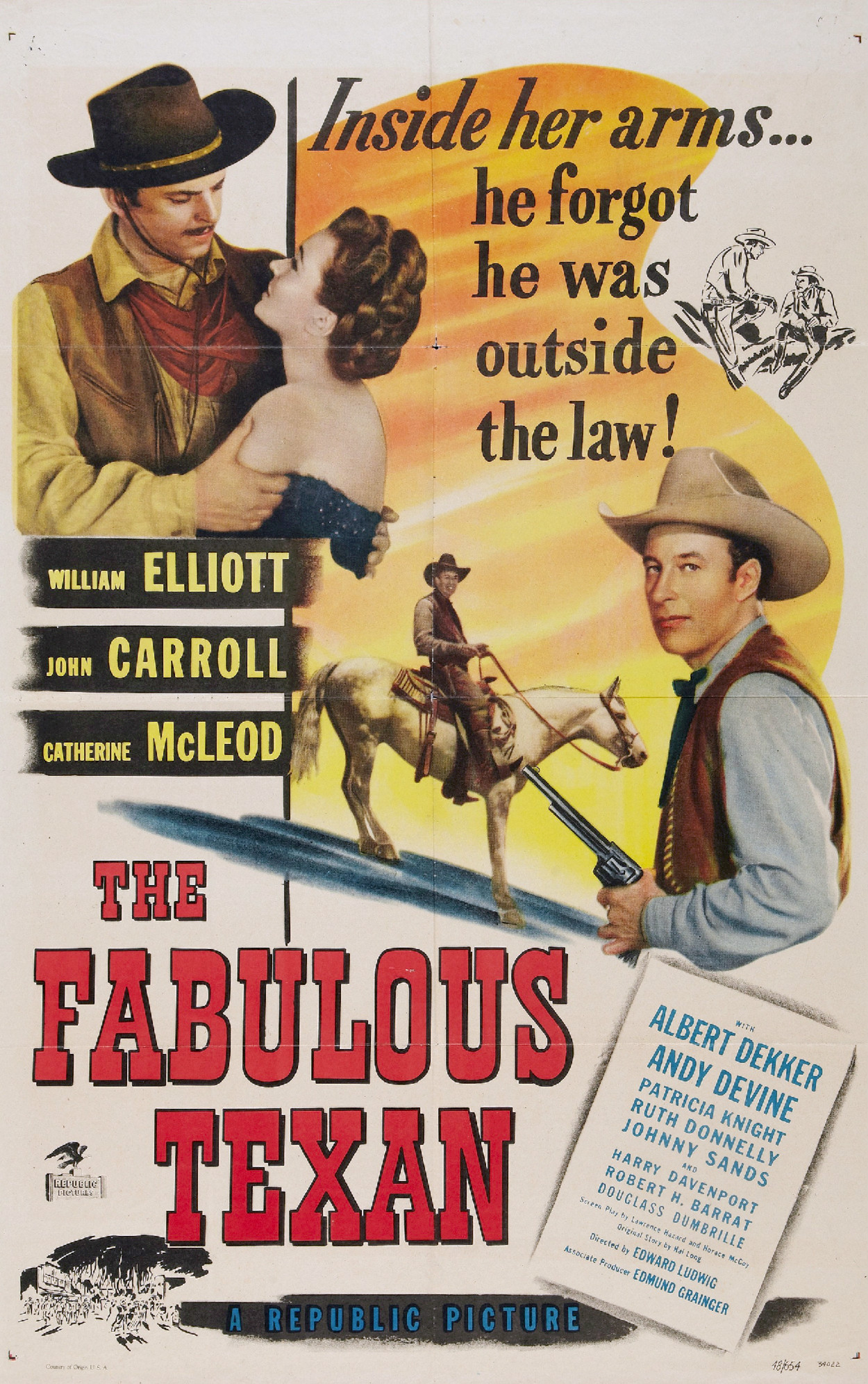 Poster for the 1947 film The Fabulous Texan. There are no copyright marks. At bottom left is Country of origin USA. At bottom right is 48/654 34022.